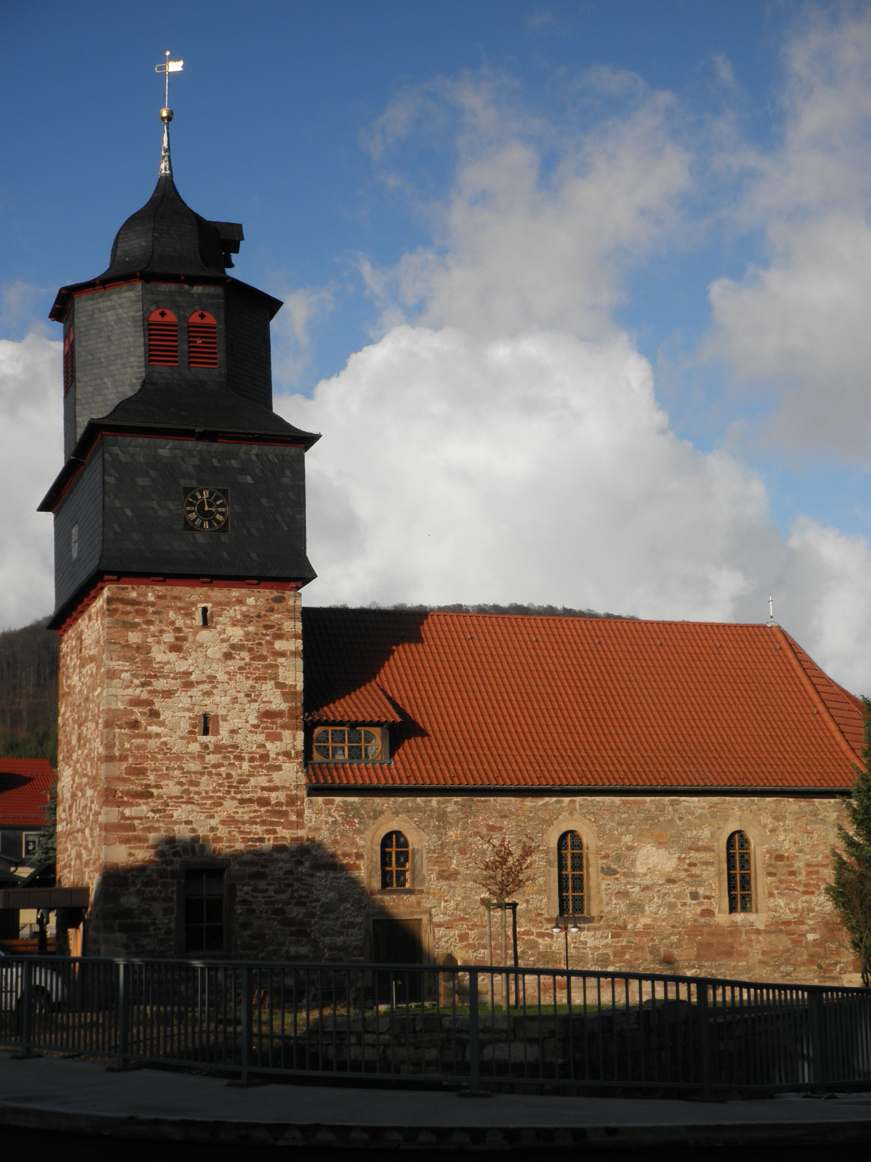 Church in Martinfeld (Schimberg) in Thuringia